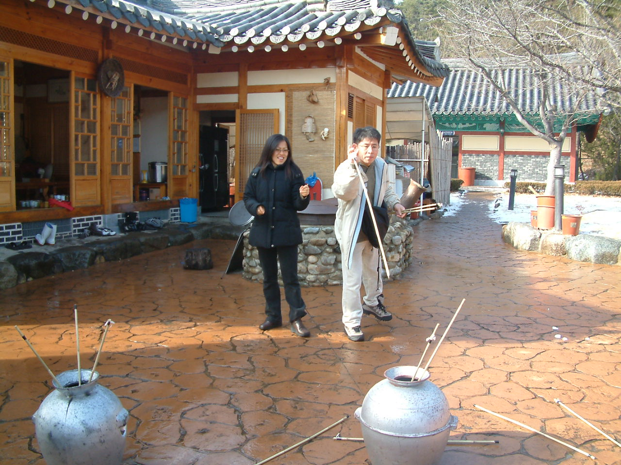 Korea Traditional Game, Tuho